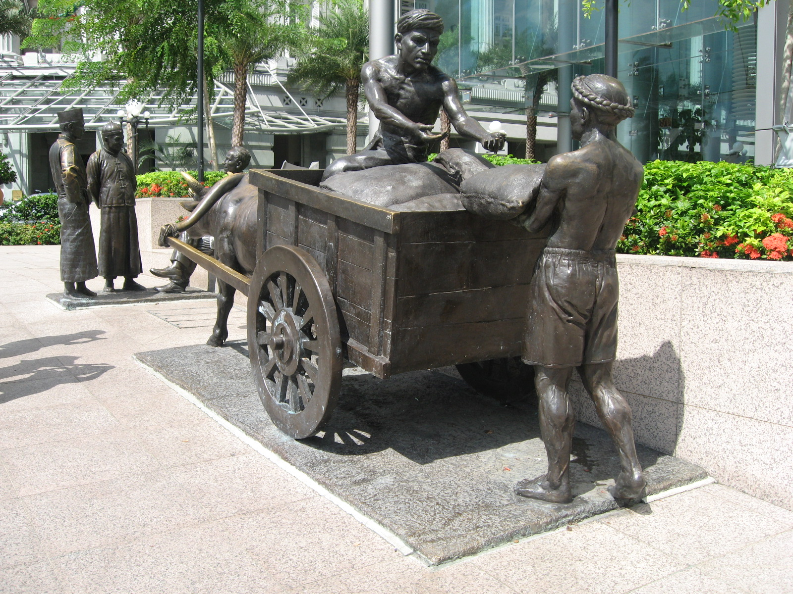 The River Merchants (2003) by Aw Tee Hong near Cavenagh Bridge, Singapore.